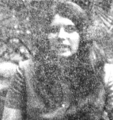 Nataša Urbančič (1945-2011), Slovene athlete